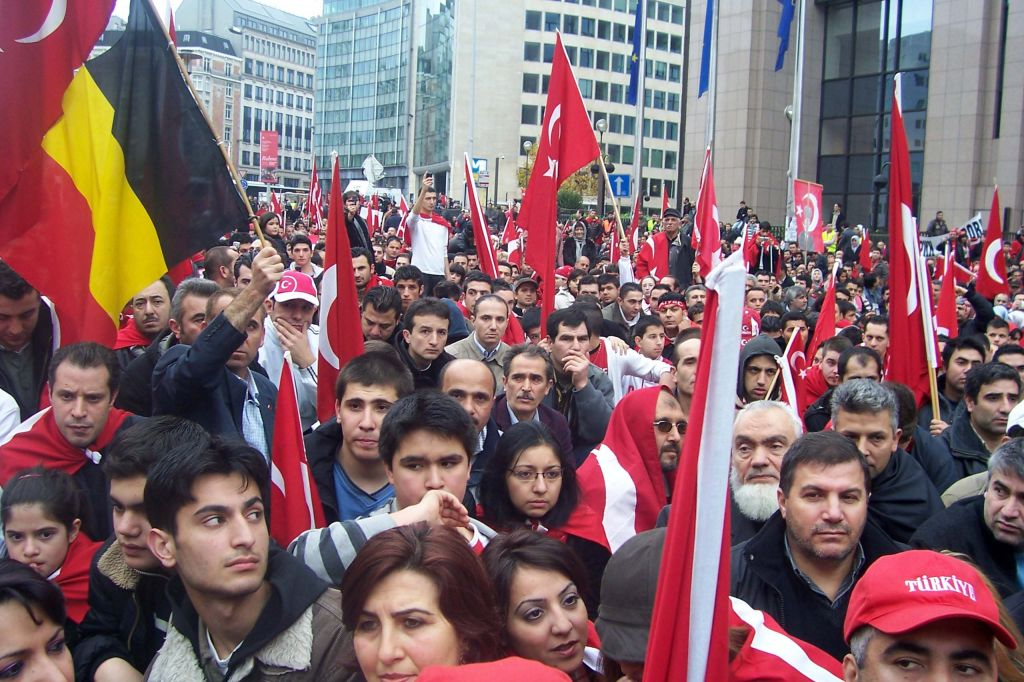 crowd people gathering in Brussels, Belgium